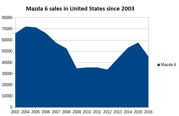 Graph data For Mazda 6 Sales in North America